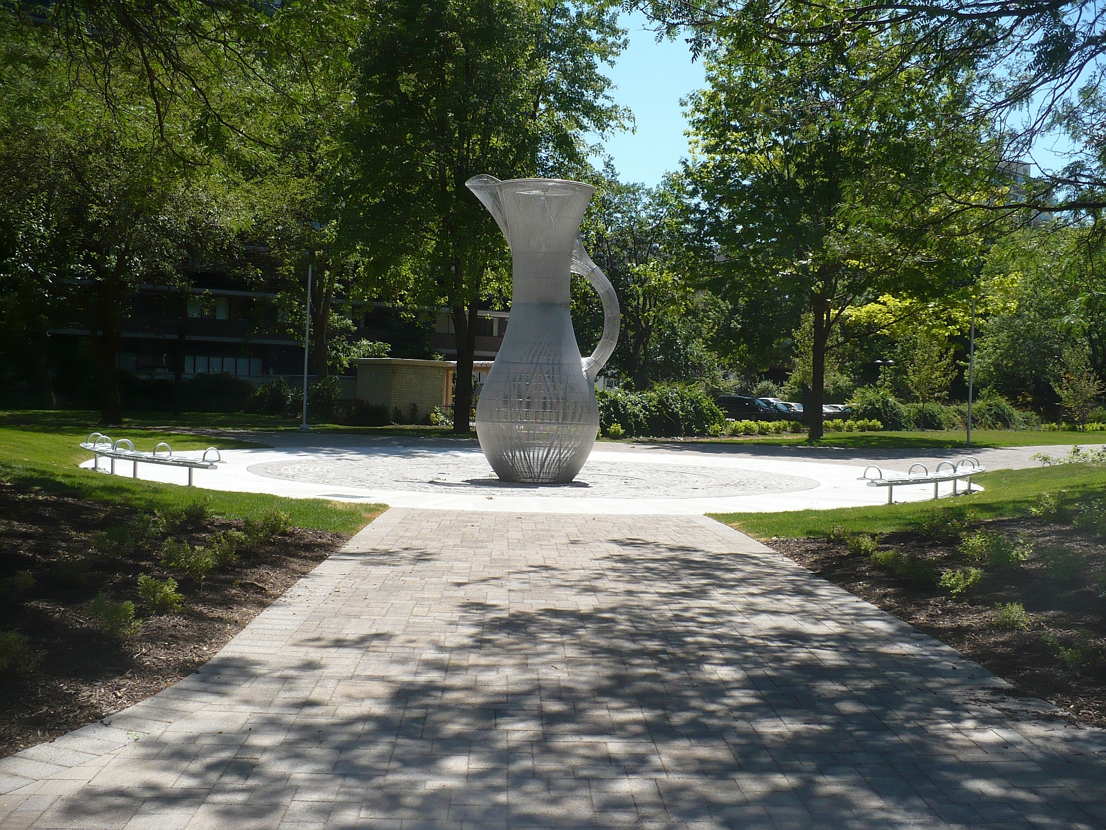 Taddle Creek Park in Toronto. The sculture was installed in 2011